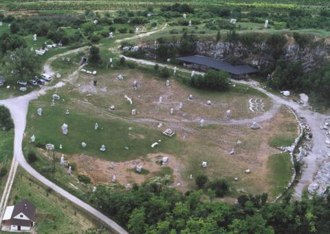 Nagyharsány, Hungary, aerialphotography